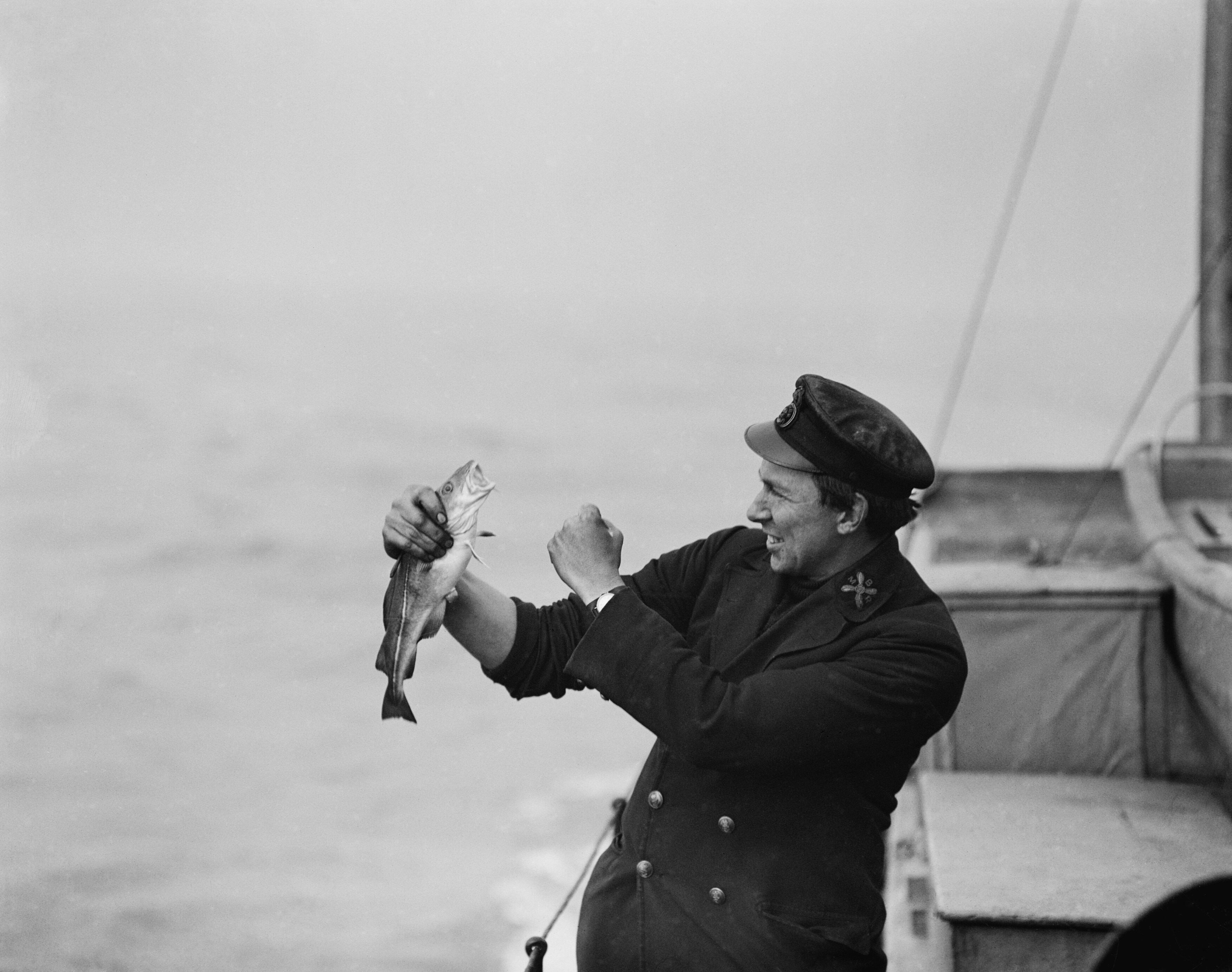 The Royal Navy on the Home Front, 1914-1918 Sailor posing with a fish stunned by the explosion of depth charge in Harwich, Essex on 15th April 1918.